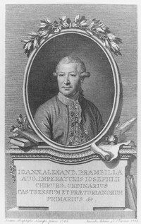 Portrait of Giovanni Alessandro Brambilla (1728-1800), Italian physician